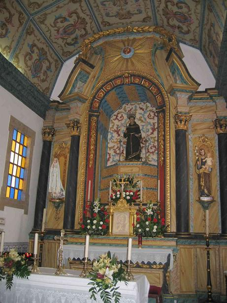 Church of Covões - Altar - Cantanhede - Portugal